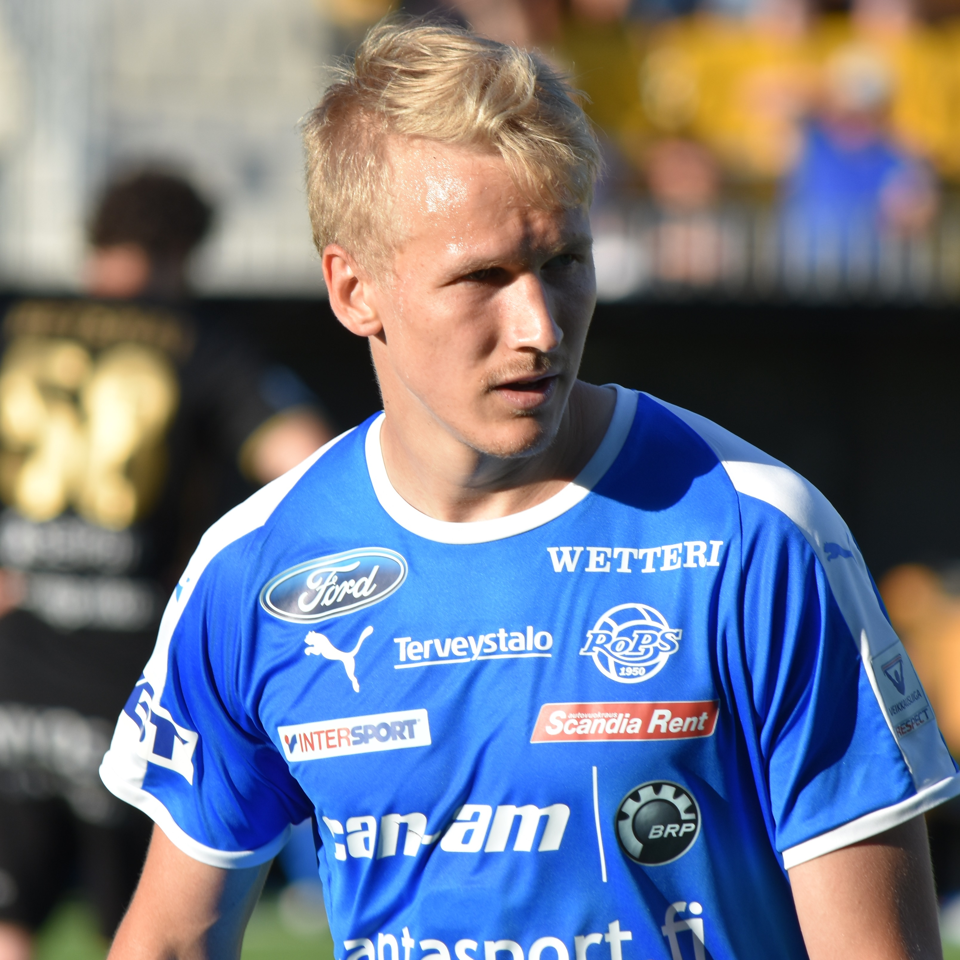 Association football player Simo Roiha (RoPS)